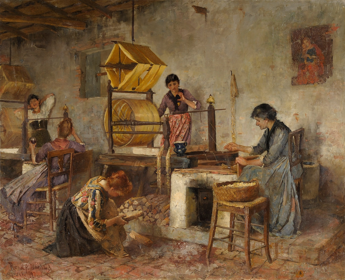 Italian woman with Spinners weasels (clock reels)